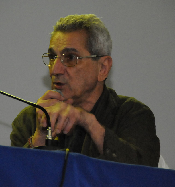 Antonio Negri speaking at the Seminário Internacional Mundo